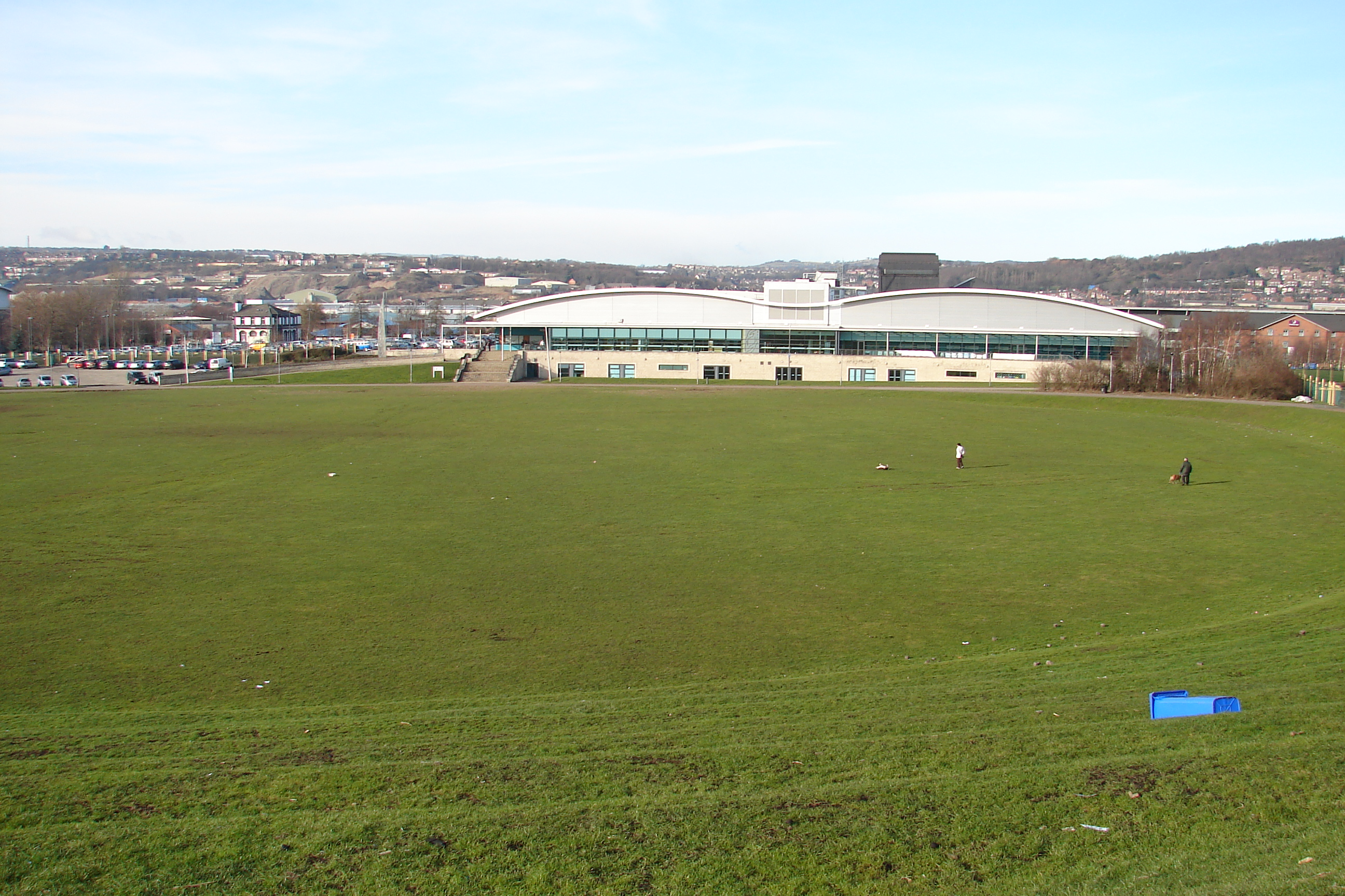 Don Valley Grass Bowl